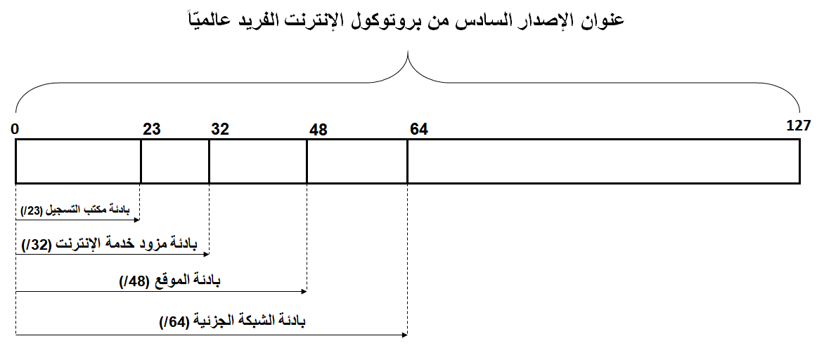 The allocation and assignment levels of an IPv6 global unicast address.